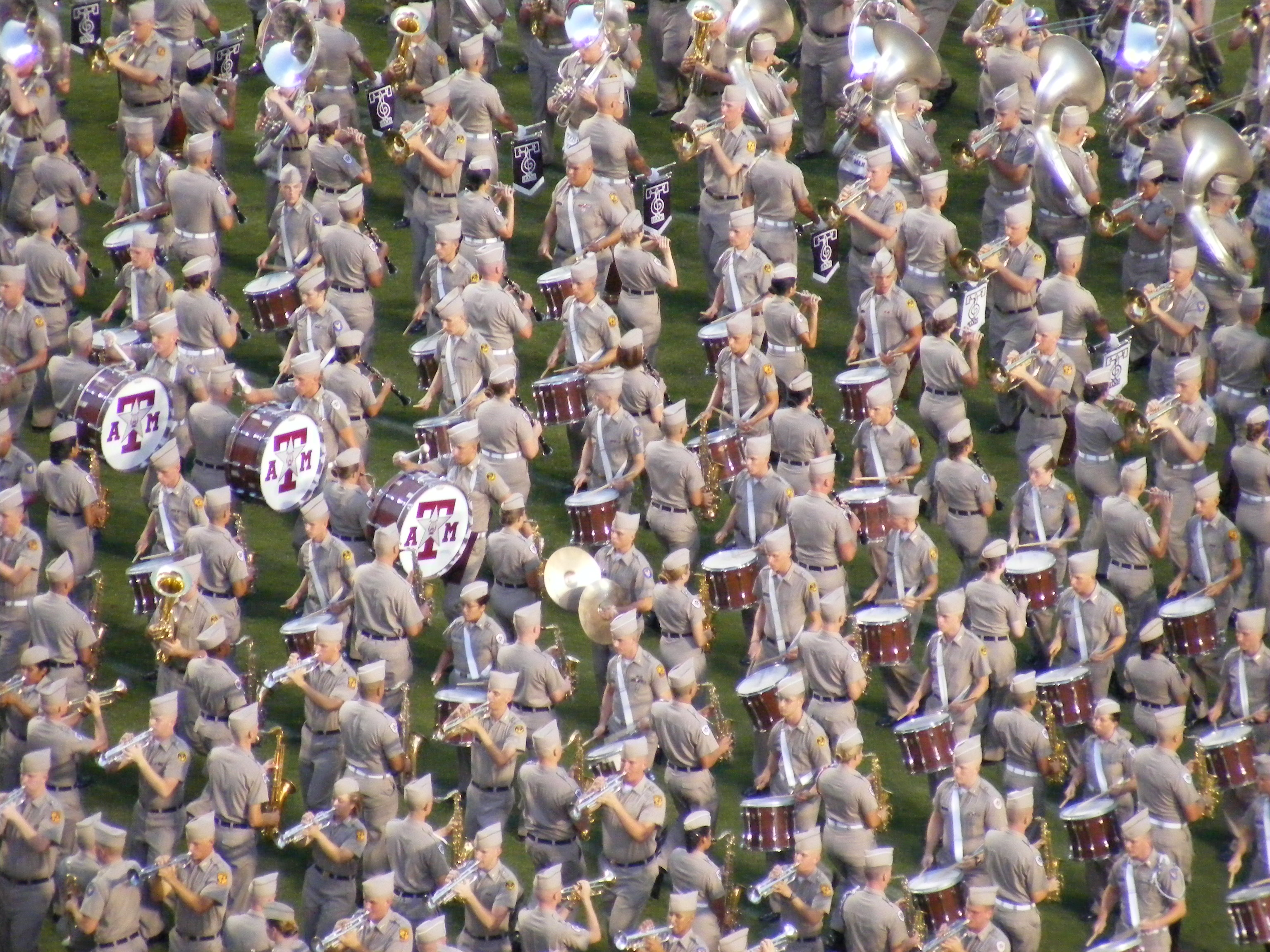 A picture of the Aggie Band from The Zone at Kyle Field. User:BQZip01 took this picture myself at the Montana State game on 1 September 2007